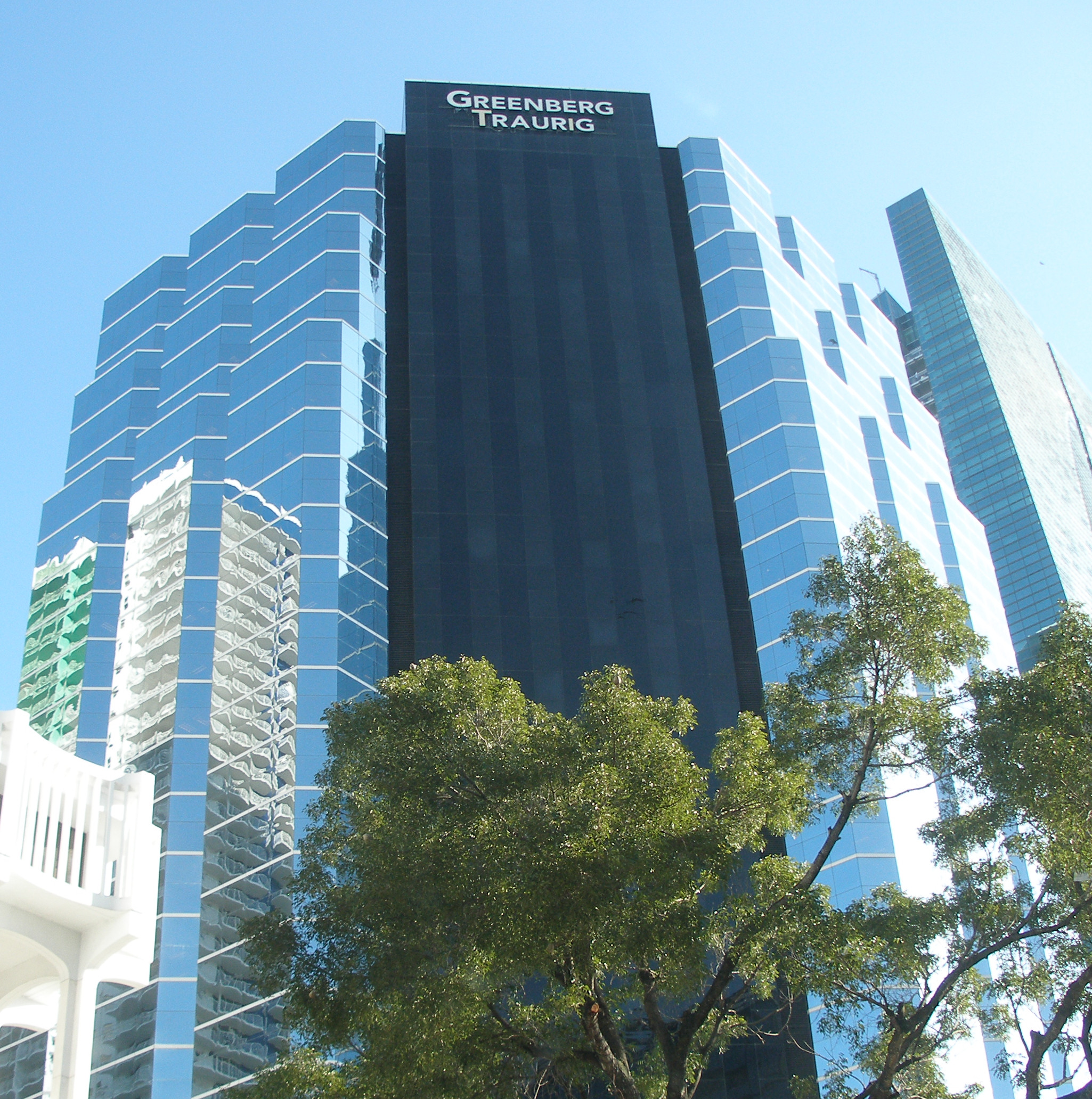 Greenberg Traurig headquarters in Miami.